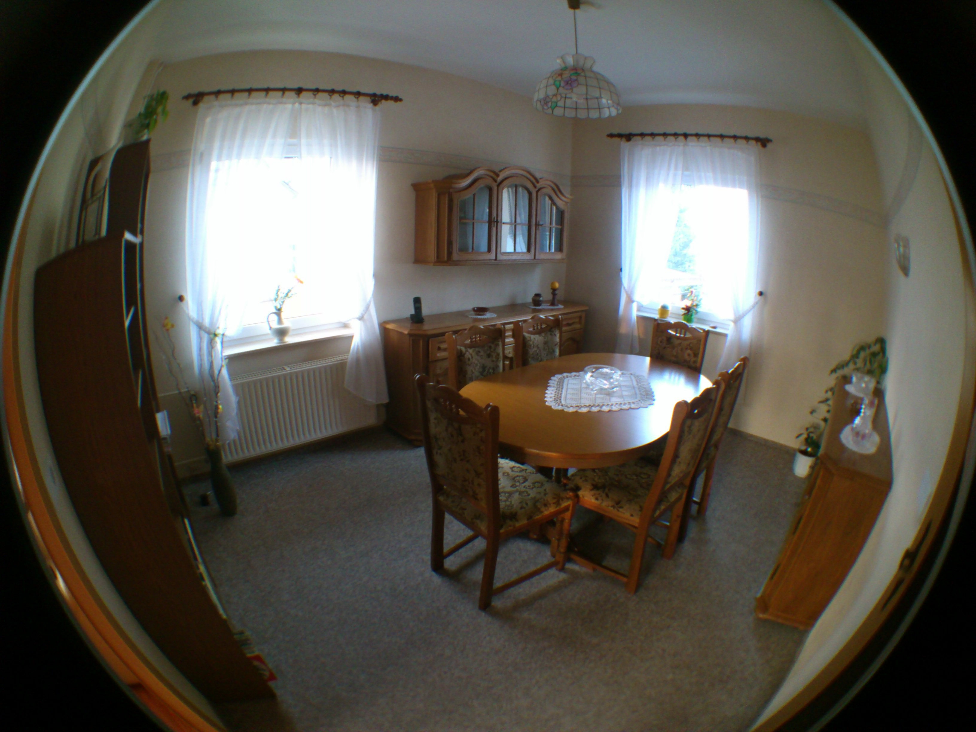 Digital photo, fisheye converter 0.53x (type: orthographic). Complete room (4 walls, ceiling and floor). A series of experiments showed the best quality at a somewhat greater distance between converter and smartphone. That's why I have not used the self-adhesive ring, but a socket of 3 mm thickness. Fisheye converter 0.28x (real 0.53x), XPERIA neo (MT15i)